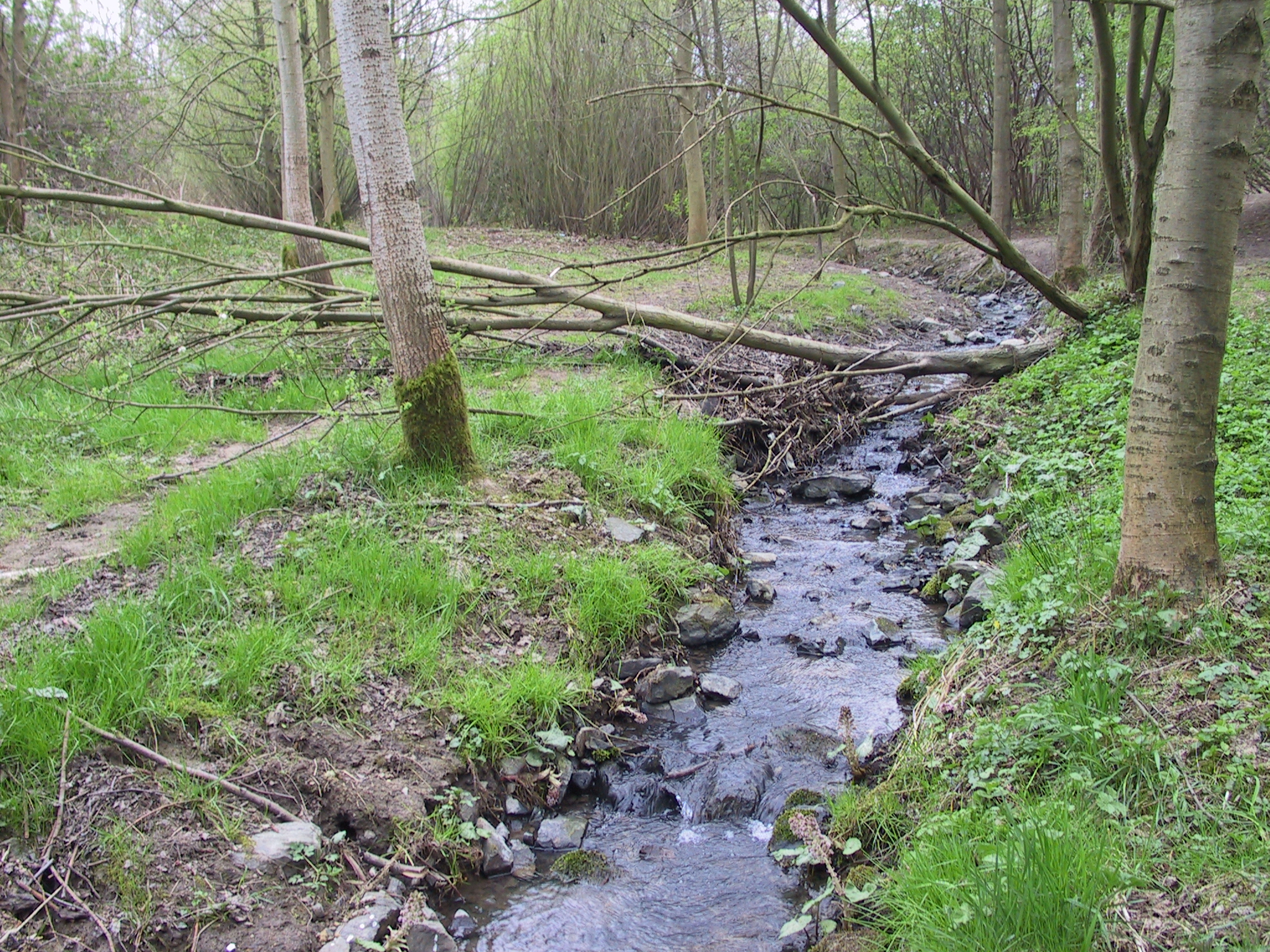 A tree naturally fallen across the "Nathe-Bach" stream in Dortmund (Germany), forming a temporary log bridge (not sure if actually used as such by humans, but note the path on the left)